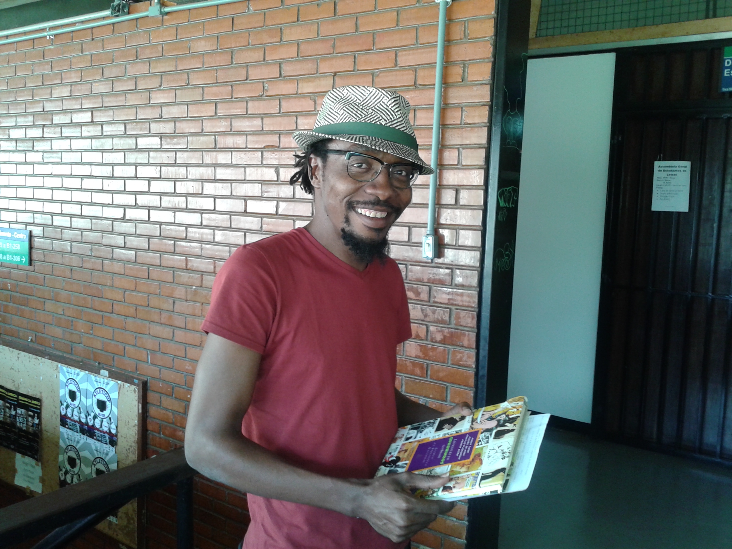 Ramón Esono Ebalé (who writes under the pen name Jamón y Queso), Equatorial Guinean comic artist